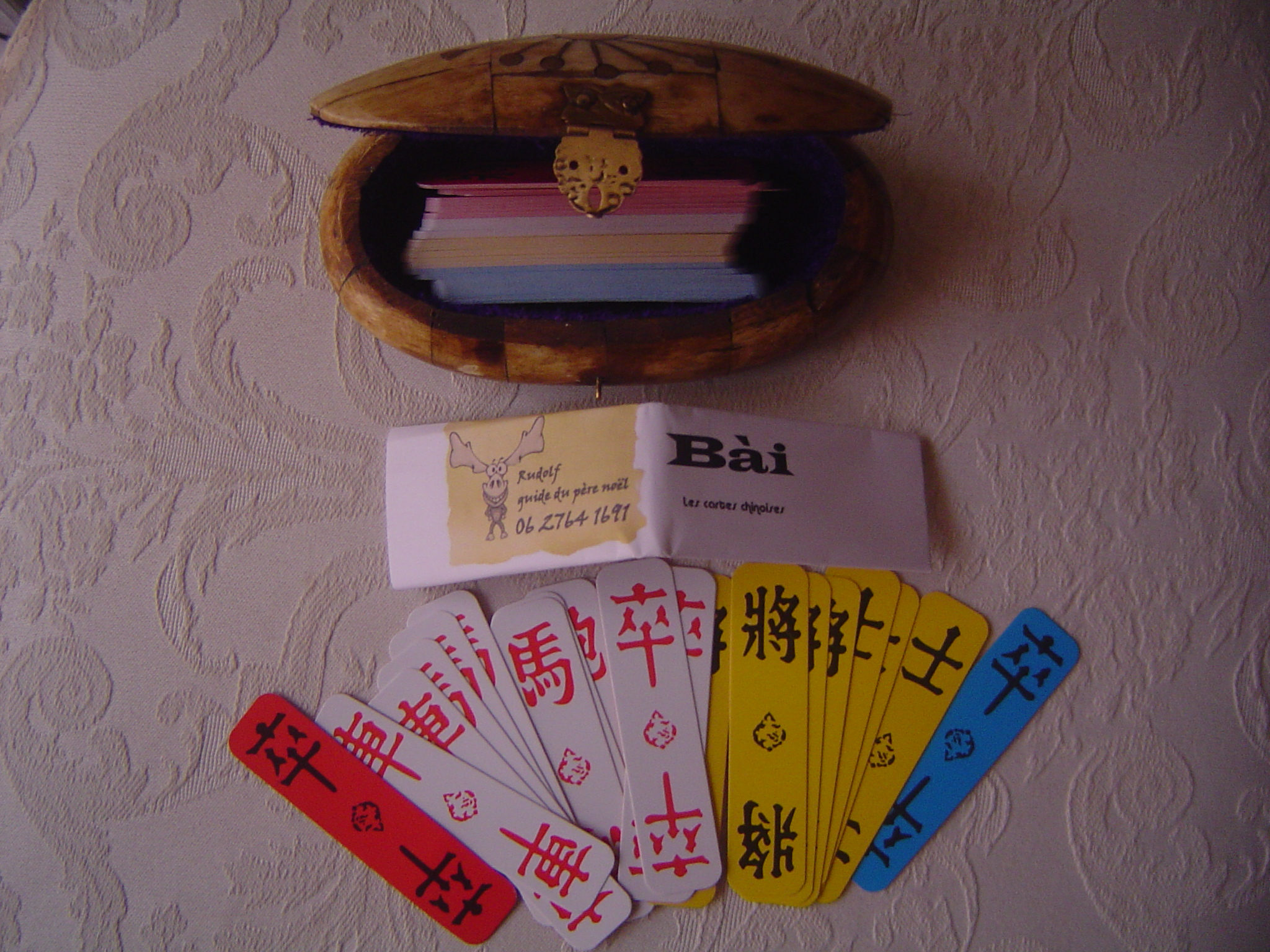 Bài box game